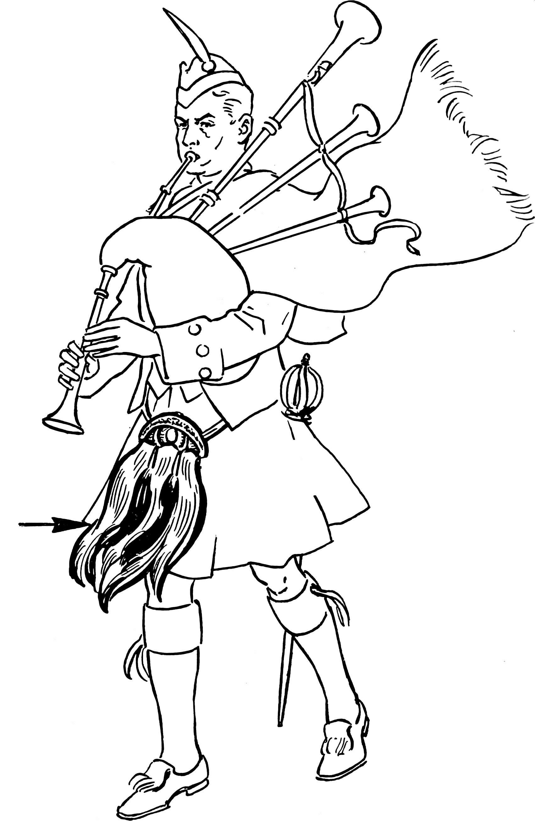 Line art representation of Sporran